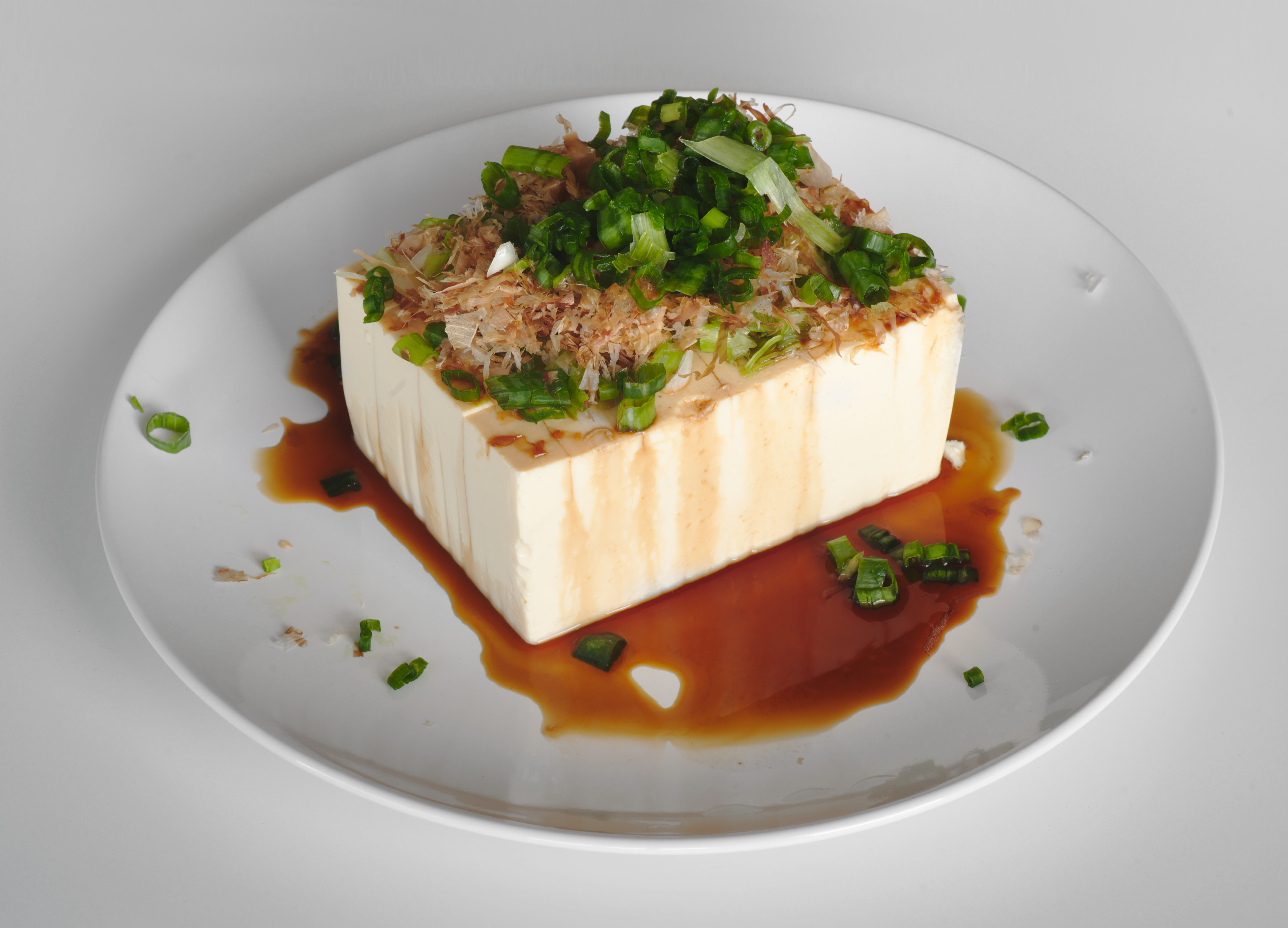 Hiyayakko, a chilled block of tofu, topped with bonito flakes and Welsh onion.